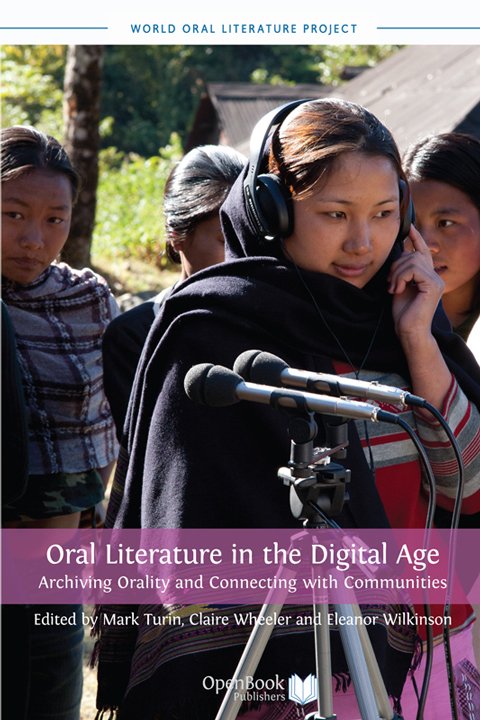 Cover image: A Pochury woman listens to a recording of her own singing. Kohima (Nagaland), 2005. Photo: Alban von Stockhausen.